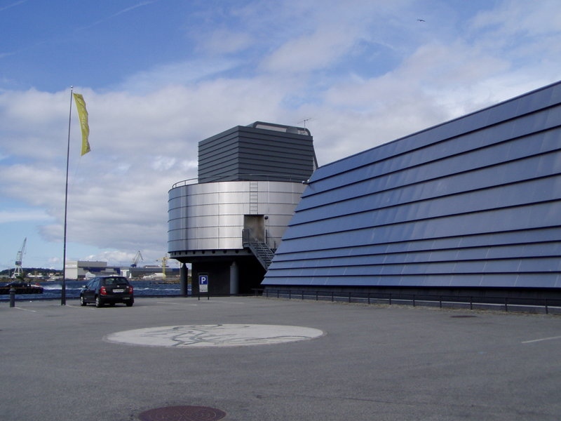 Norwegian Petroleum Museum in Stavanger.